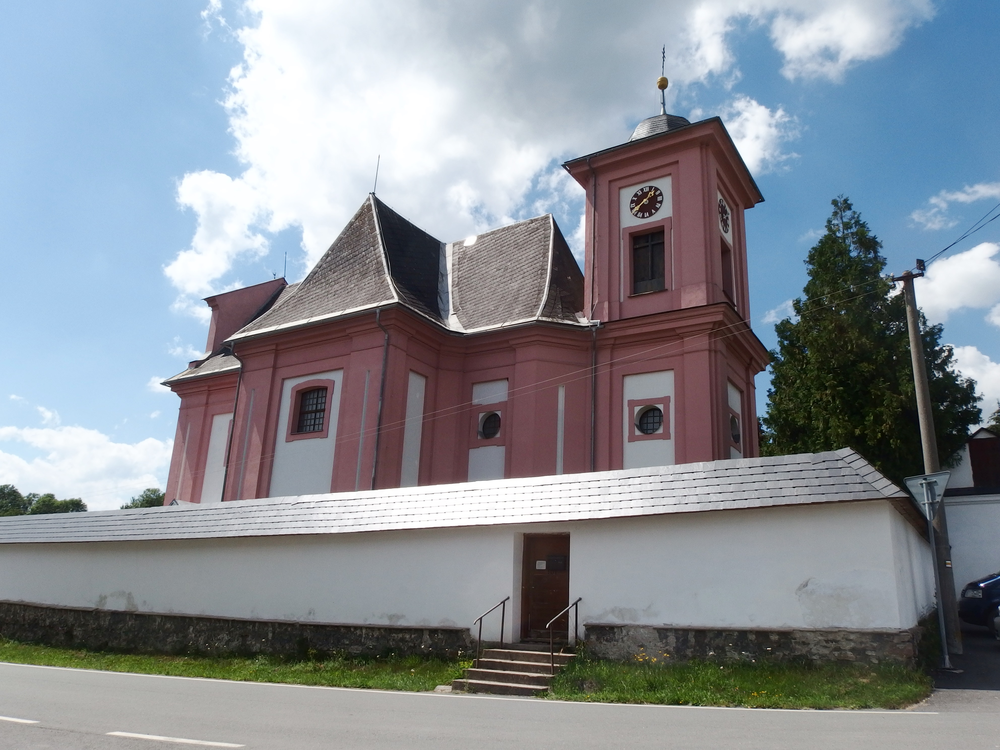 Jakubovice, Šumperk District, Czechia.